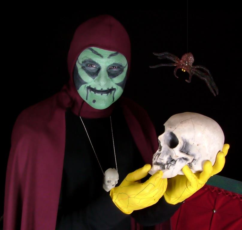 Sammy Terry's legacy continued after Robert Carter retired. His son, Mark Carter, took over playing Sammy Terry in 2010.